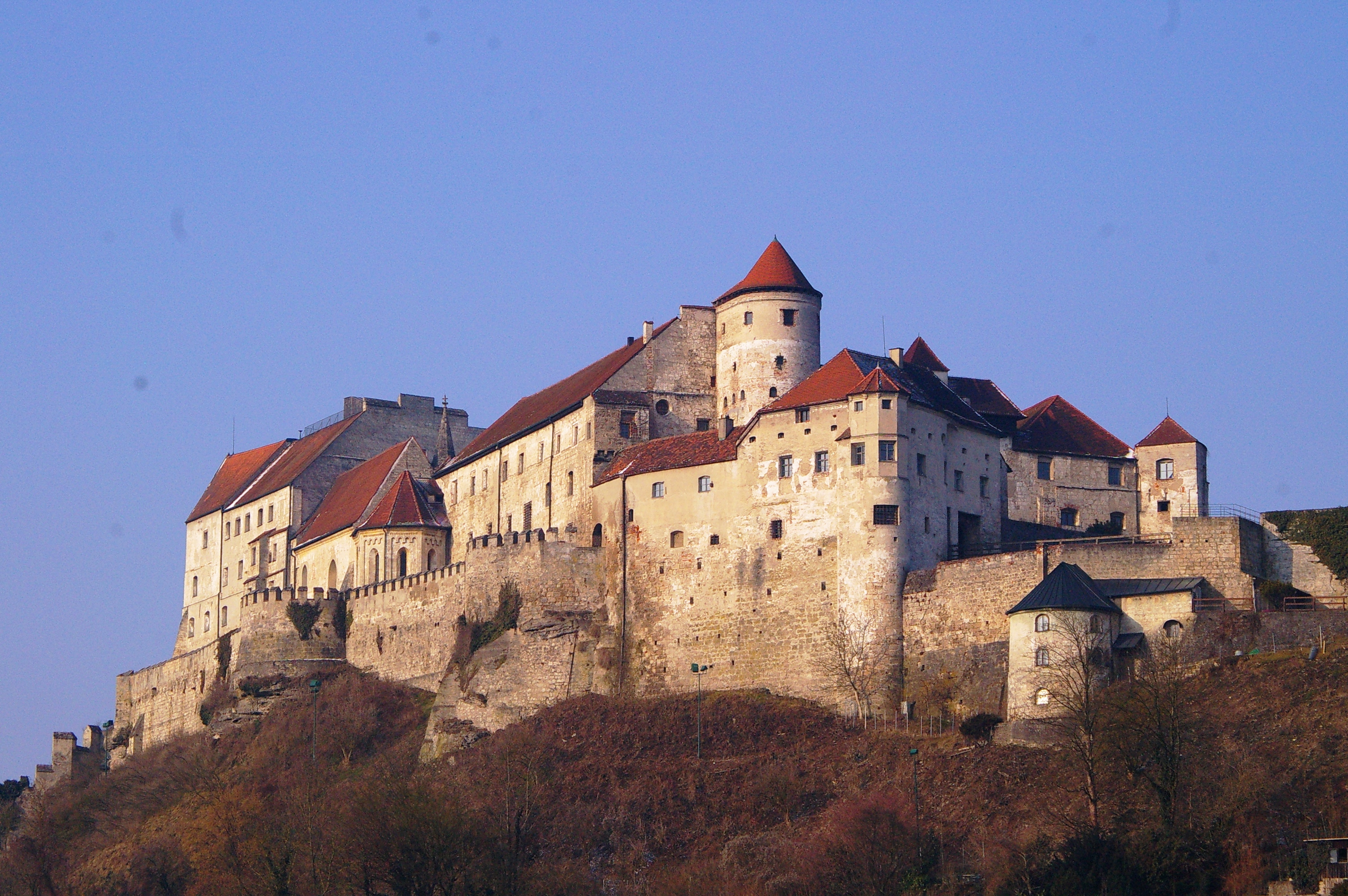 castle burghausen